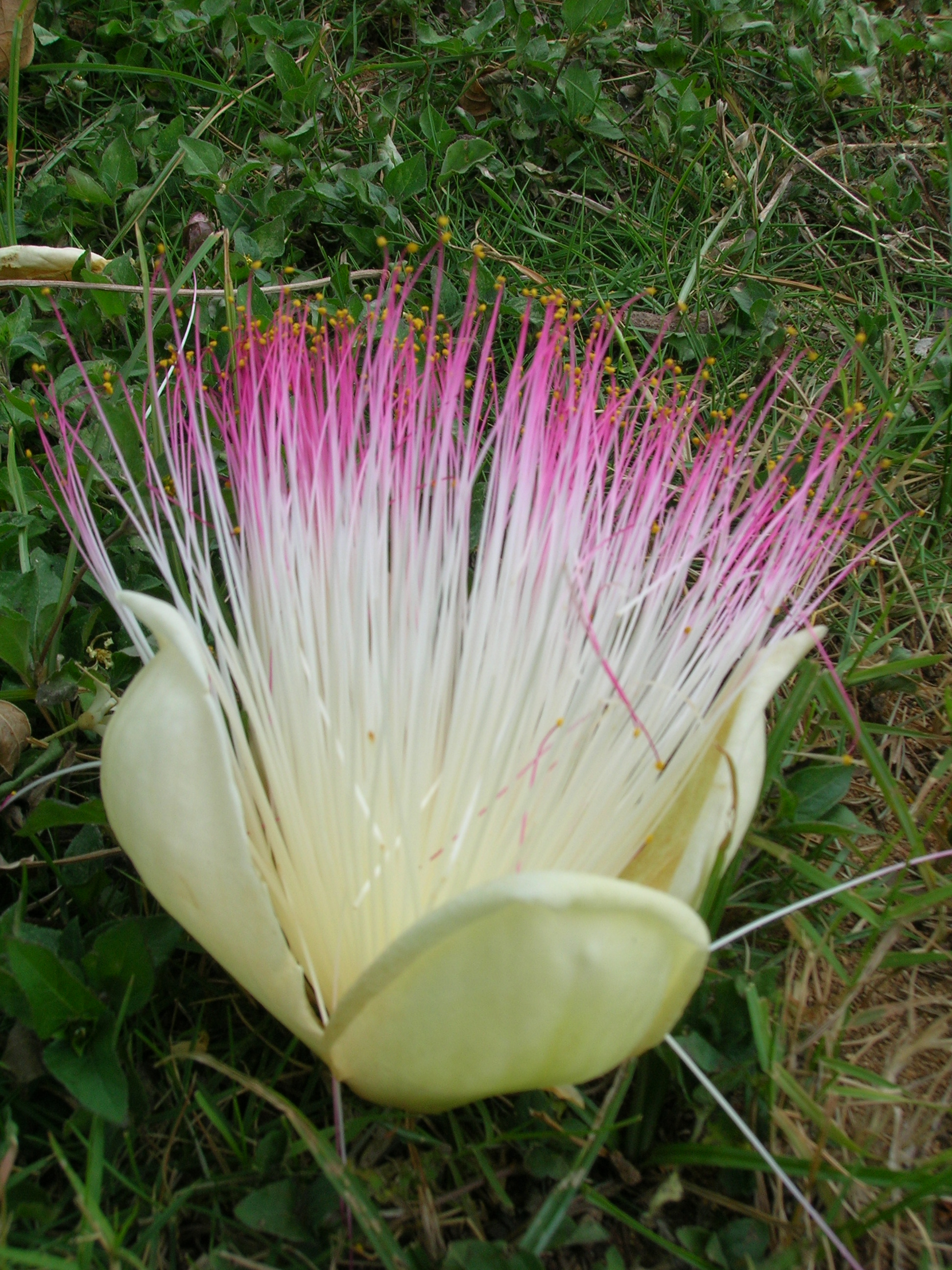 Flower of Barringtonia asiatica at Keopuolani Park, Maui, Hawaii.